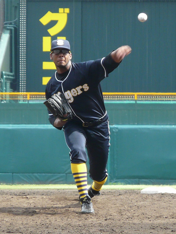 HT-Robert-Zarate20110608